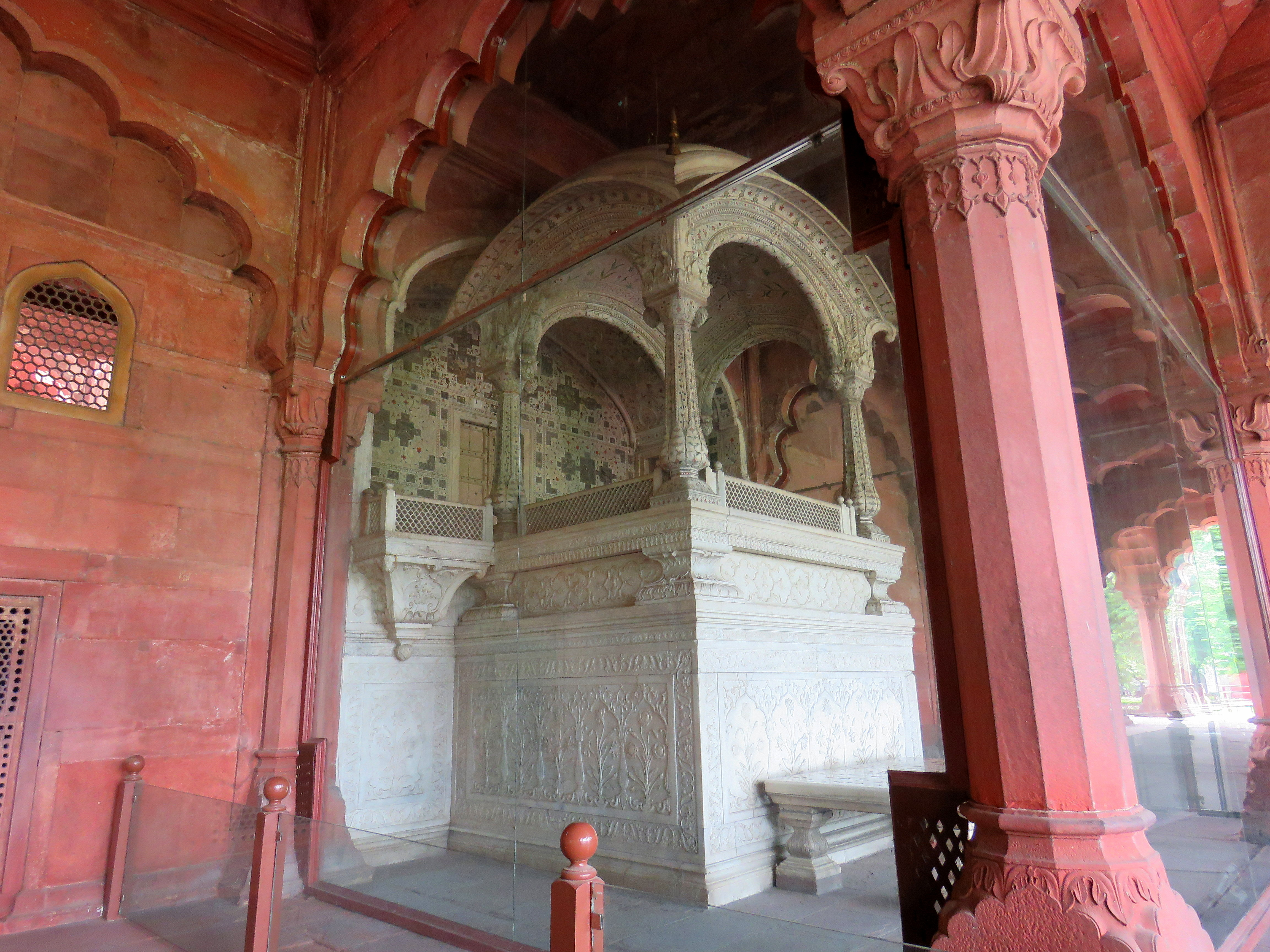 Red Fort, which includes Naubat Khana, Diwan-i-Am, Mumtaz Mahal, Rang Mahal, Baithak, Muthamman Burj, Diwan-i-Khas, Moti Masjid, Sawan and Bhadon, Shahi Burj, Hammam with all surrounding including the gardens, paths, terraces and water courses. Built 1638 - 1648 CE